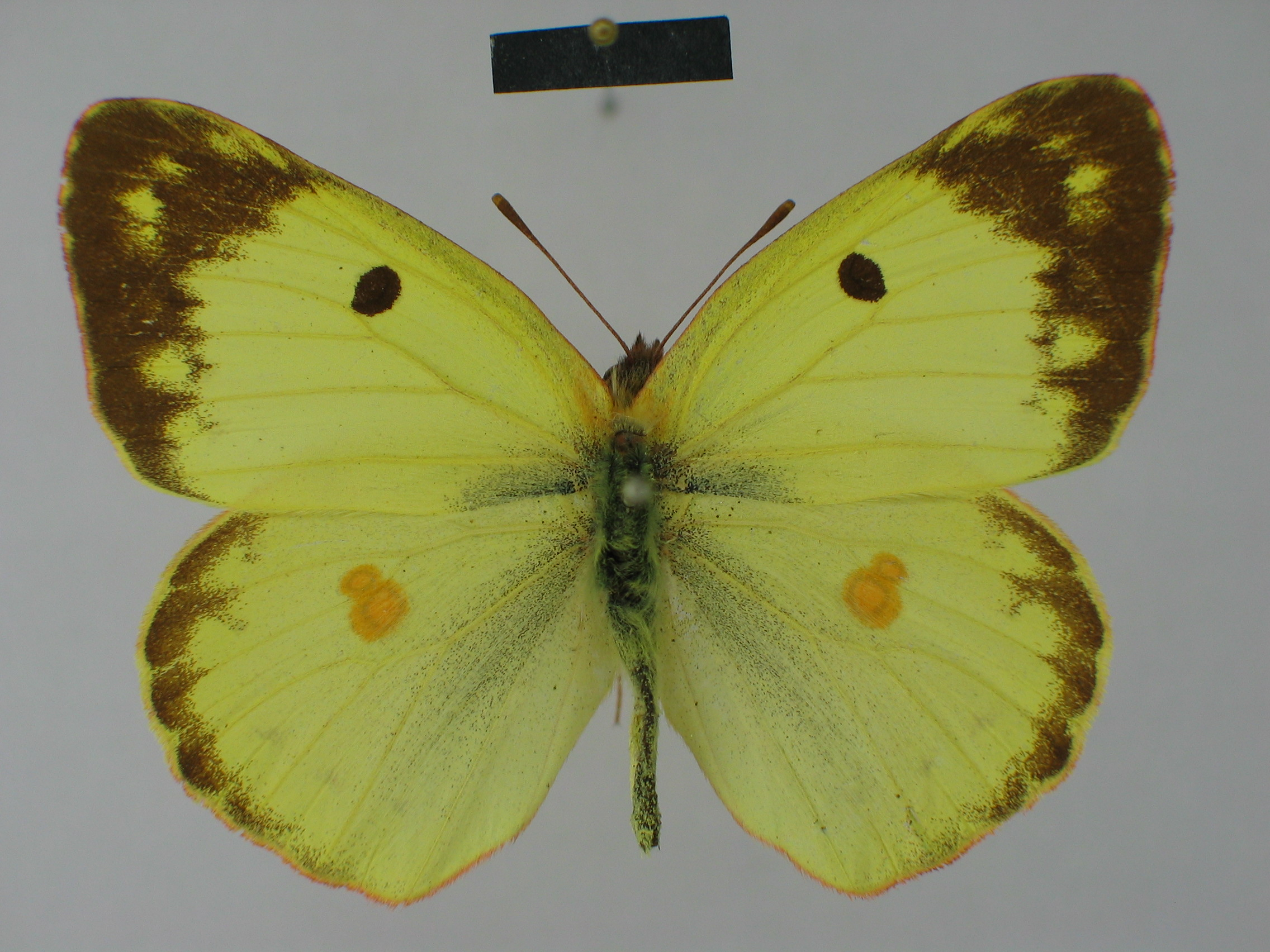 Paralectotype of the species Colias alfacariensis alfacariensis from the collection of the Zoologische Staatssamlung München; ♂ dorsal side; scalebar=1 cm